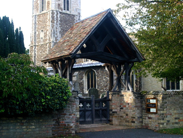 St,Margaret's Church, Hemingford Abbots. The Lych Gate